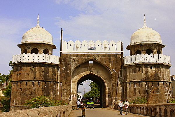 One of the 52 gates of Aurangabad